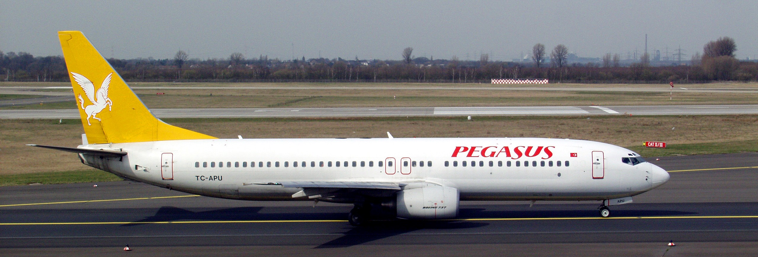 Boeing 737-82R (TC-APU) of Pegasus Airlines at Düsseldorf airport